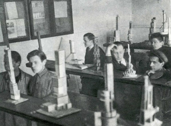 OBMAS architecture students with three-dimensional models in the 1920s